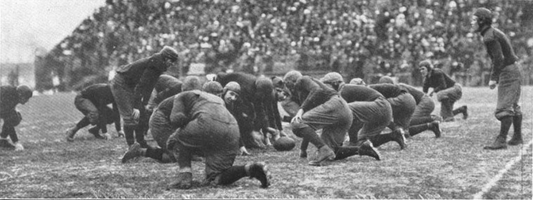 Photograph taken of scrimmage during the Michigan - Penn football game, November 1911, caption reads "Waiting for the Signal"